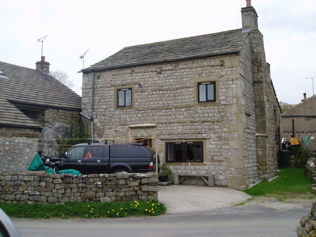 Foxwood Farm. Old farmhouse now an Outdoor Centre in Newhouses, owned by the former Foxwood School, Seacroft, Leeds.